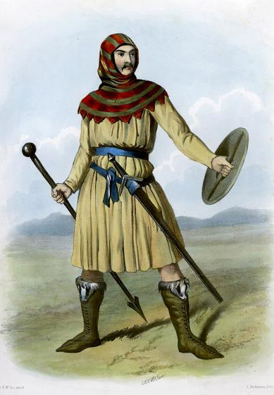 "Mac Ivor". A plate illustrated by R. R. McIan, from James Logan's The Clans of the Scottish Highlands, published in 1845.